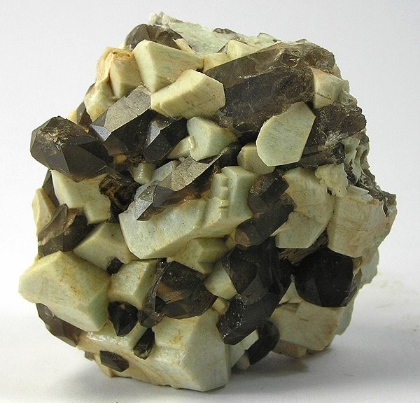 Quartz (Var.: Smoky Quartz), Microcline Locality: Conway, Carroll County, New Hampshire, USA (Locality at ) Size: 5.9 x 5.9 x 3.9 cm. This is a New Hampshire old-timer. There is such a great balance between the smoky quartes (of fine quality) and sharp microcline crystals, which actually have the merest hint of blue to them. Ex. Richard Hauck Collection.